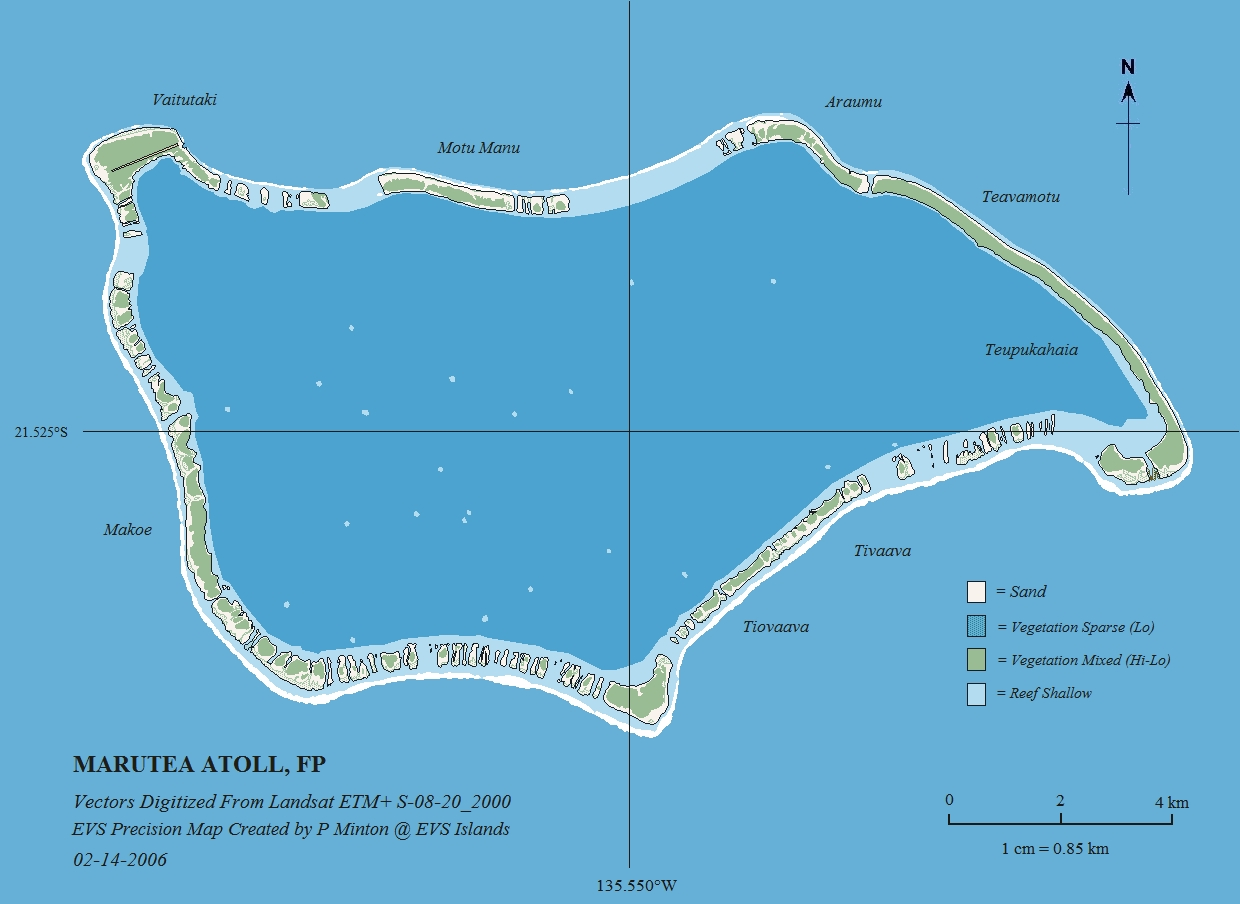 Marutea Sud Atoll FP - EVS Precision Map (1-85,000) Tuamotu Archipelago, French Polynesia